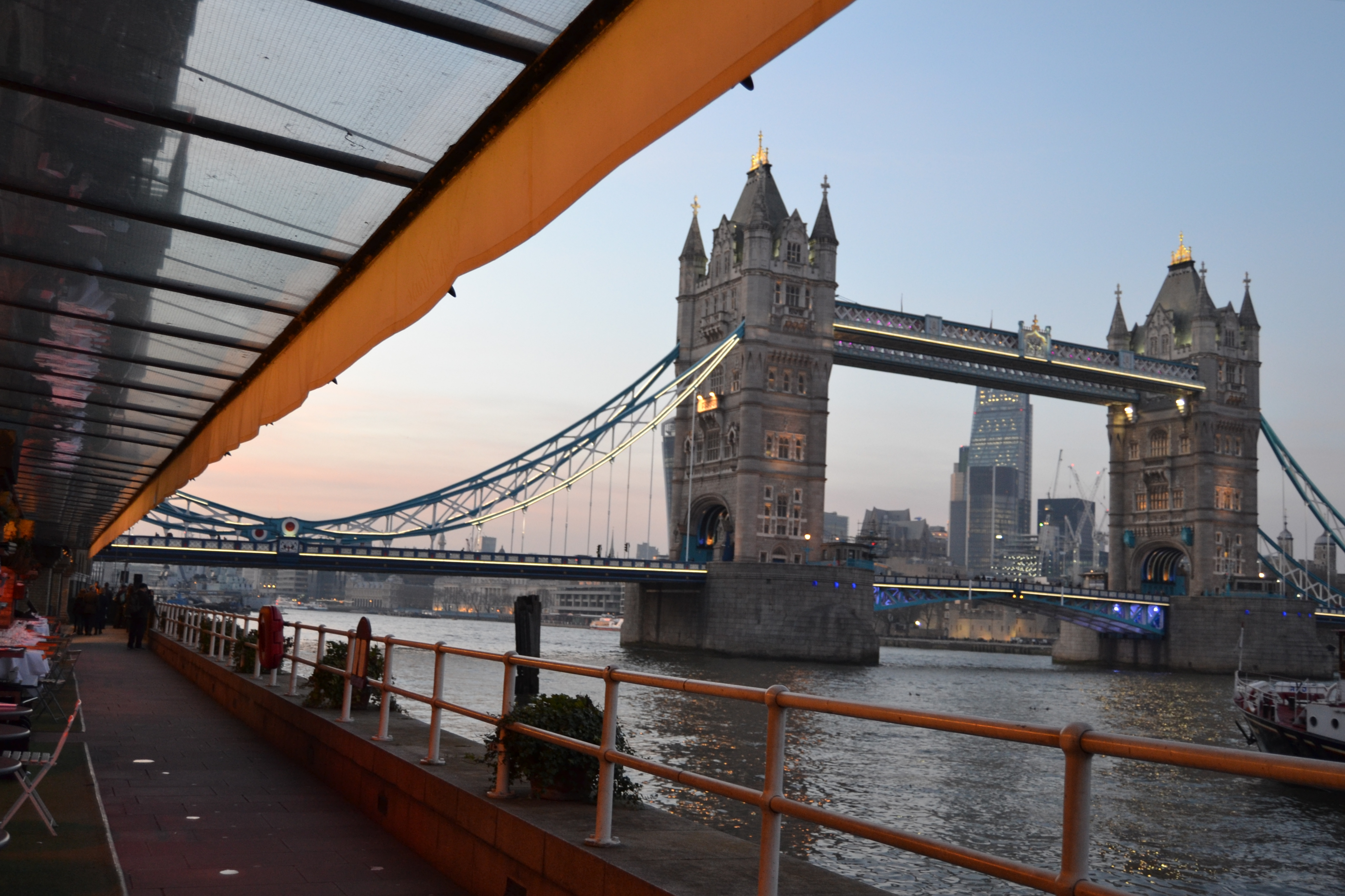 London, UK: The Tower Bridge seen from Butler's Wharf